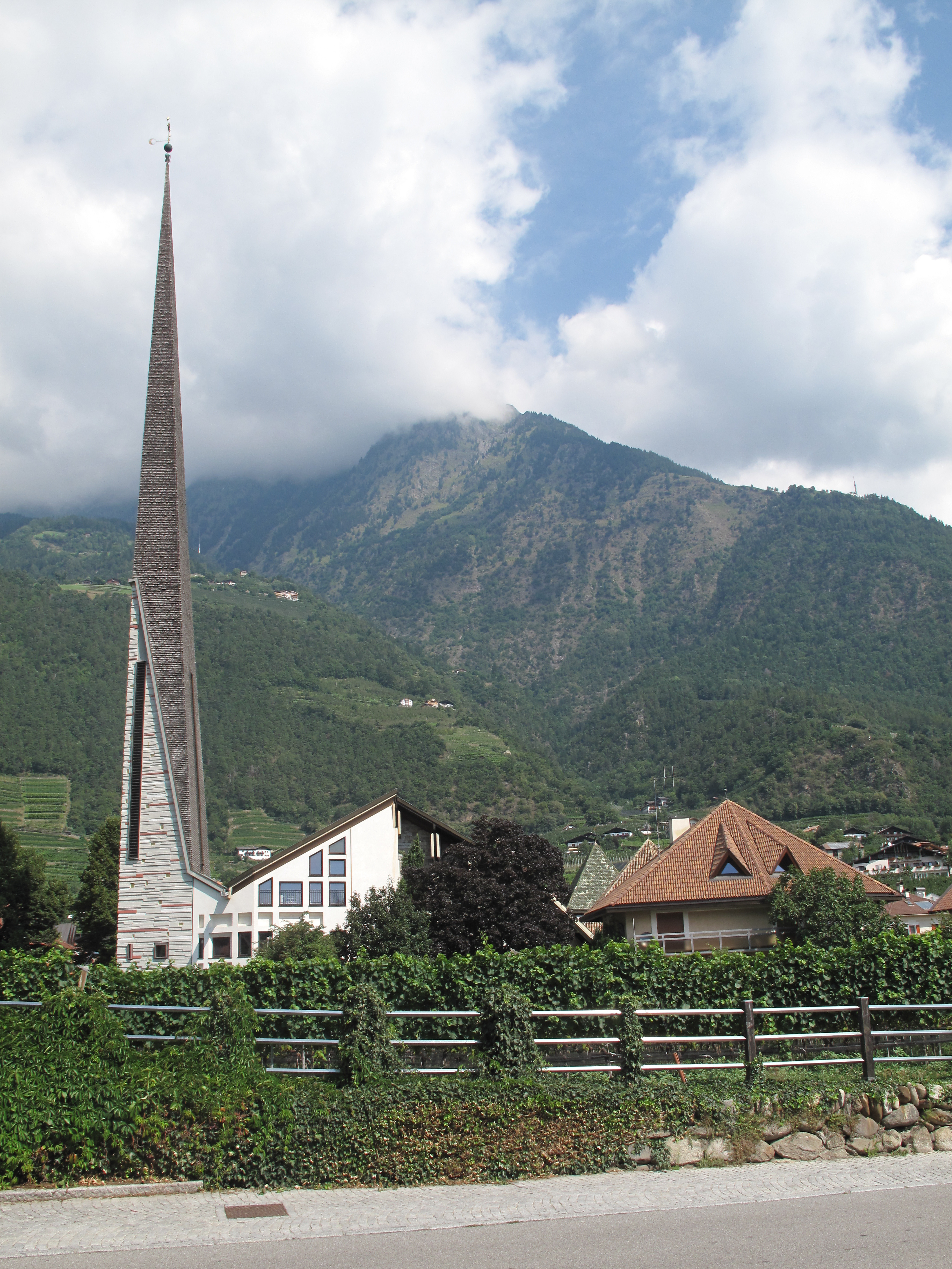 Algund, new Saint Joseph Church